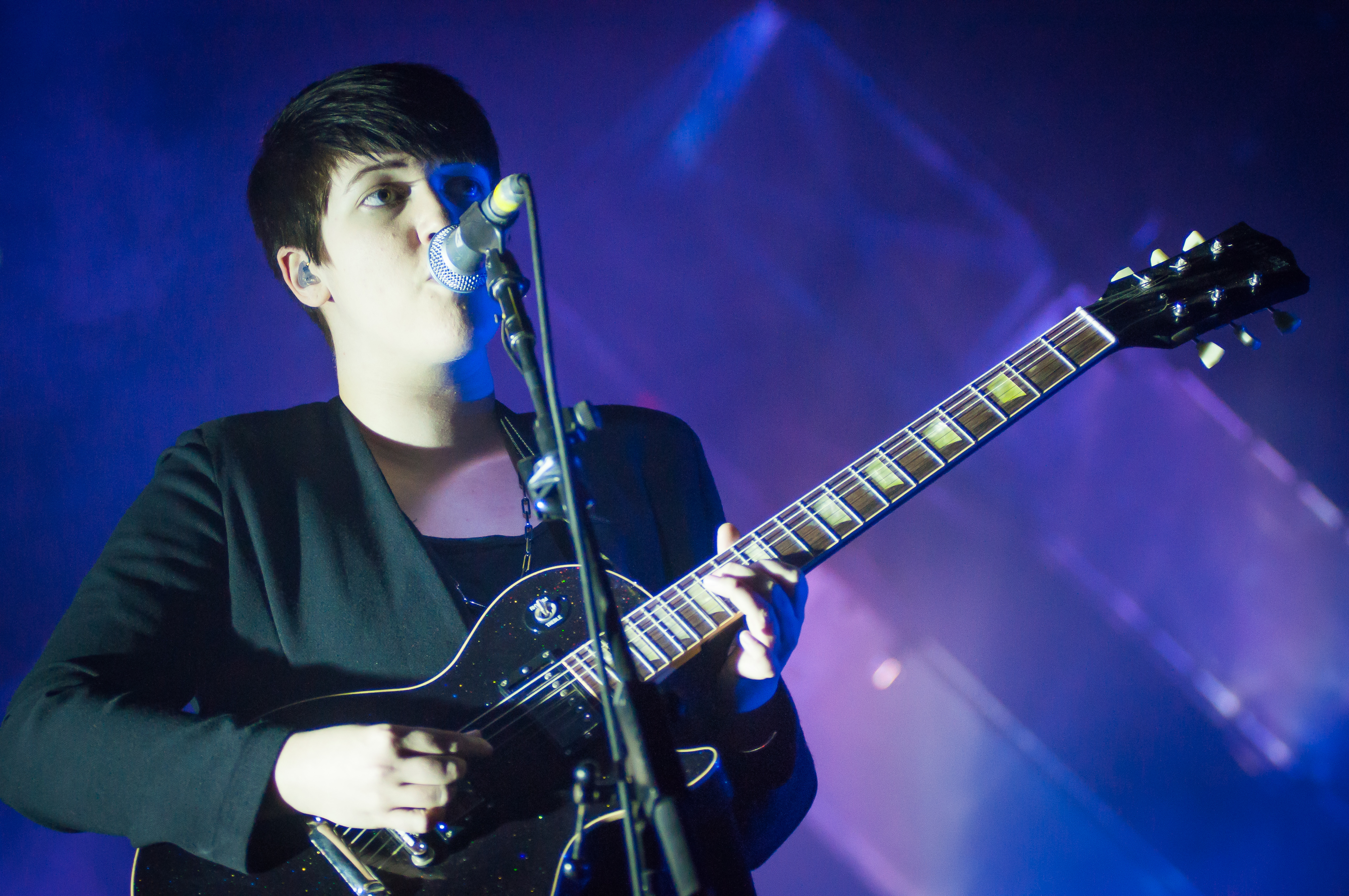 Guitarist and vocalist Romy Madley Croft of British indie pop band The xx performing at the Ilosaarirock festival in Joensuu, Finland.